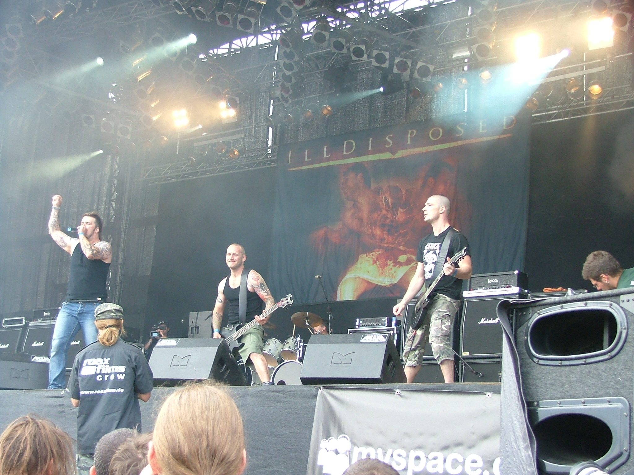 Danish death metal band Illdisposed